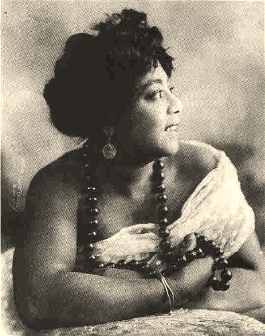 The image of American blues singer Mamie Smith